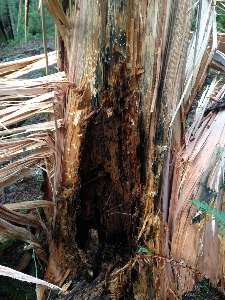 Armillaria sp. on freshly windsnapped Abies grandis windsnapped, butt rotted Abies grandis Redwood mixed conifer forest Arcata community forest Elevation 678 feet